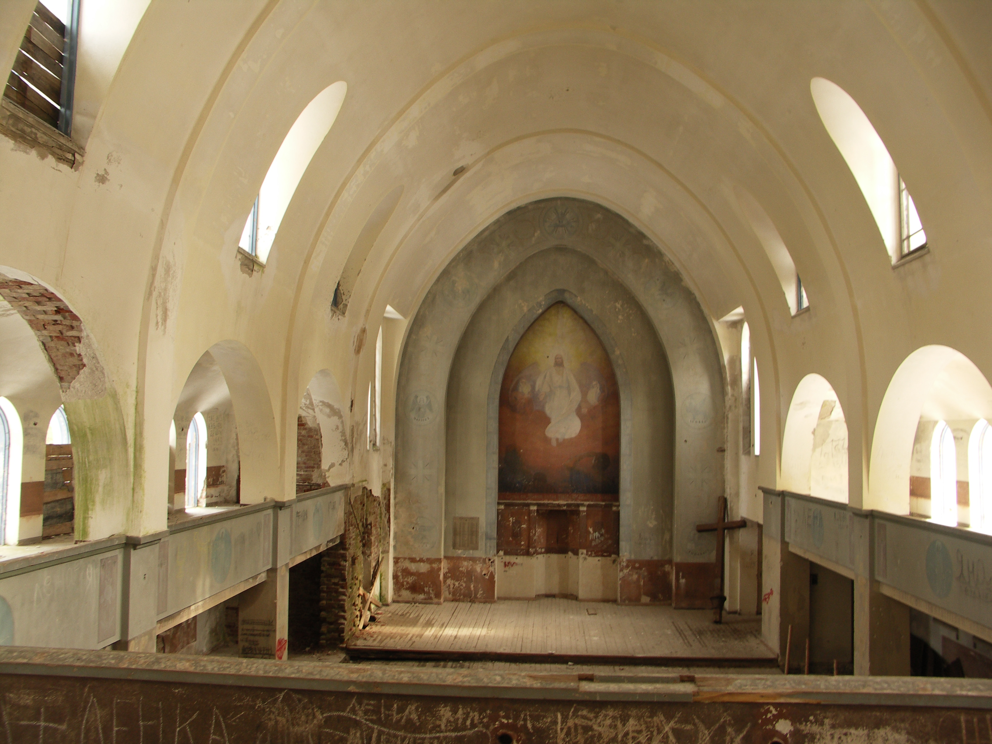 Lutheran church in Lumivaara.